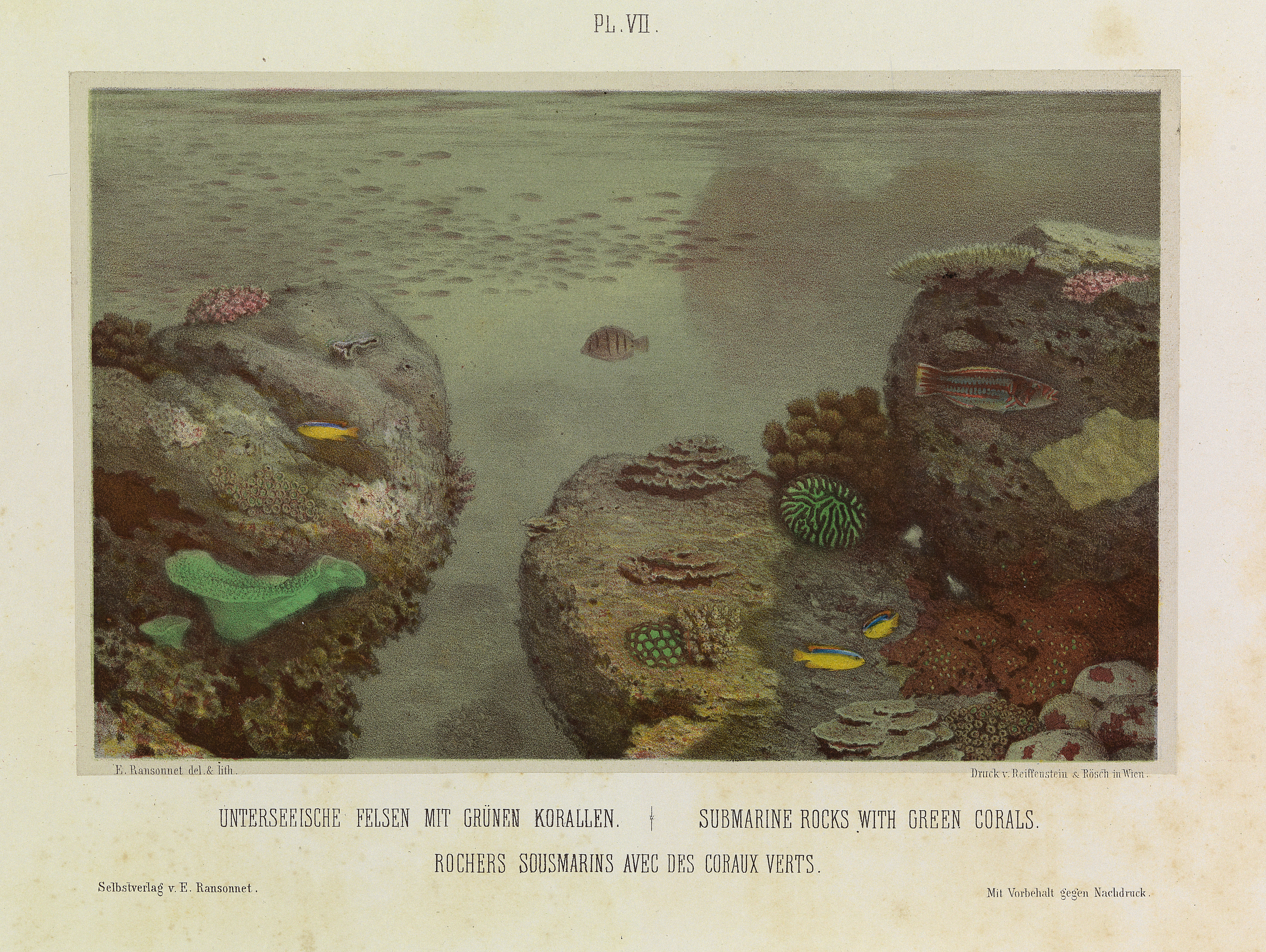 One of four colored underwater-lithographs, after E. v. Ransonnet's colored pencil drawings of Ceylon